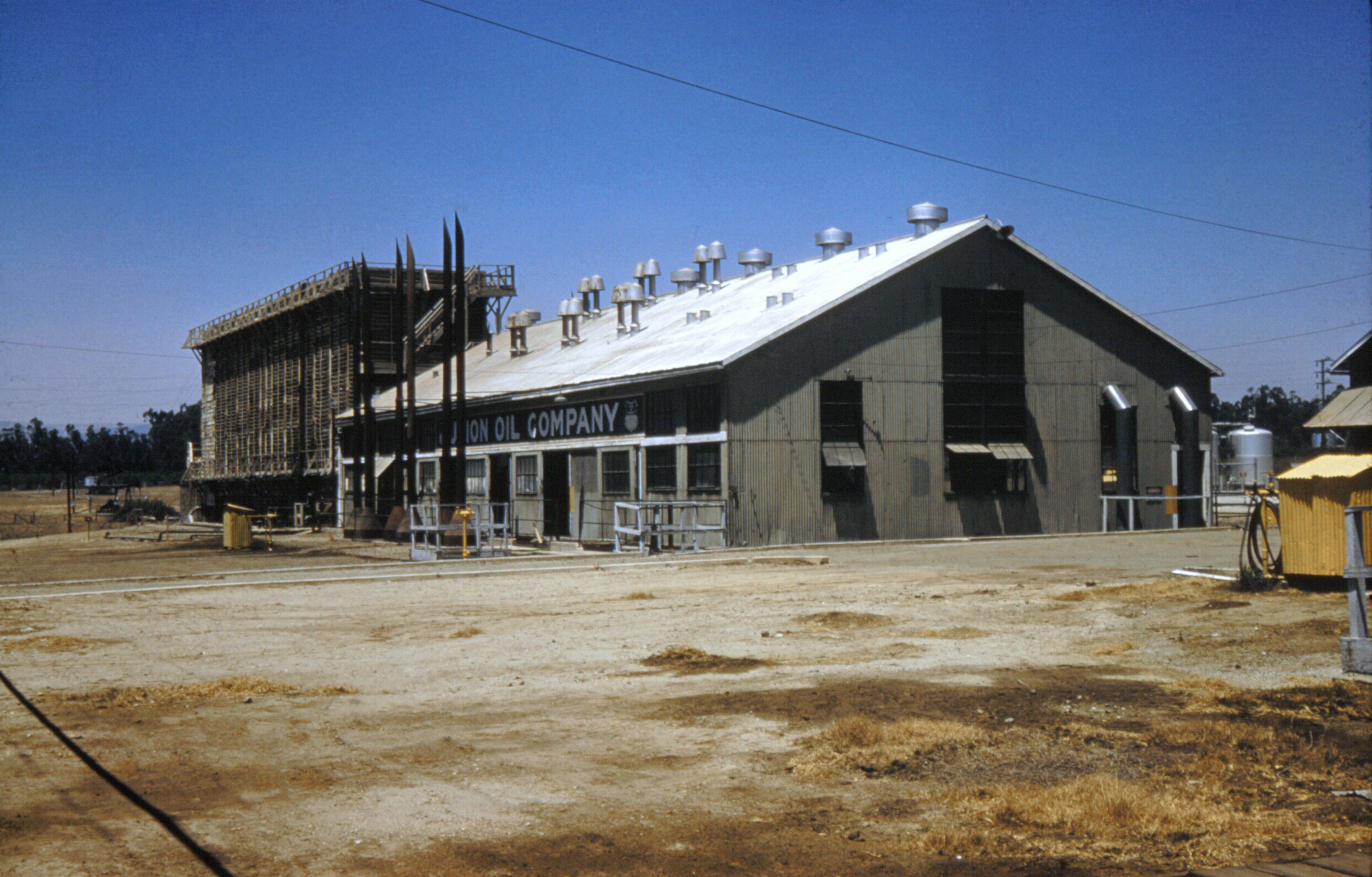 Union Oil cracking plant, Orange County, California (June 1961). Exact Location unknown. There are no known copyright restrictions on this image. All future uses of this photo should include the courtesy line, "Photo courtesy Orange County Archives." Comments are welcome after reading our Comment Policy . Acc#1986-30&31 (PC239)